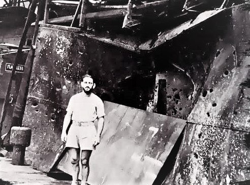 Battle damage to cruiser Australia at Lingayen Gulf